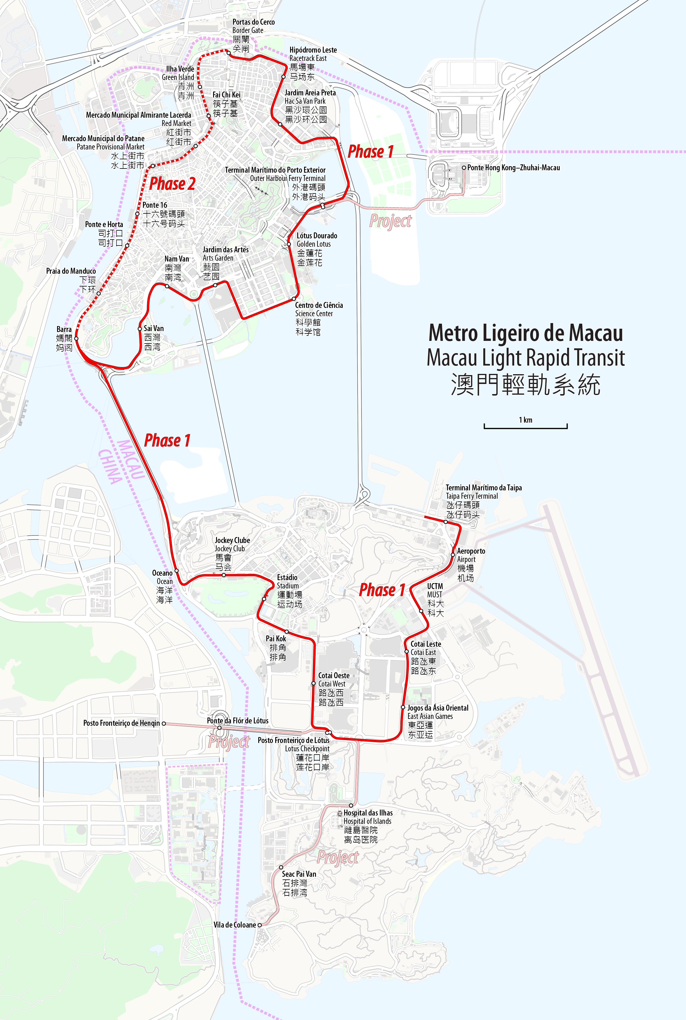 Map of the Macau Light Rapid Transit System